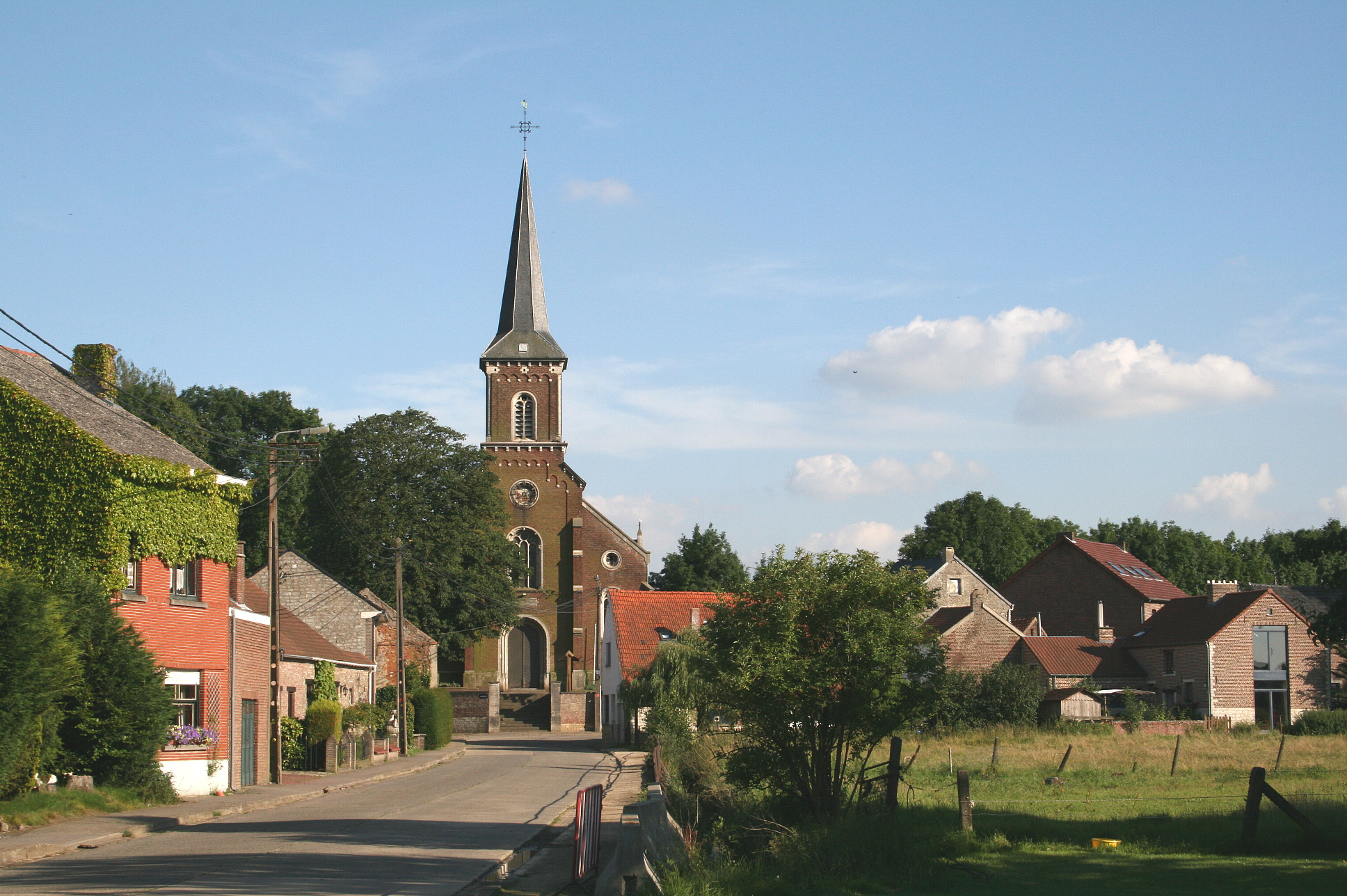 L'Écluse, Belgium, the neighbourhood of the church.